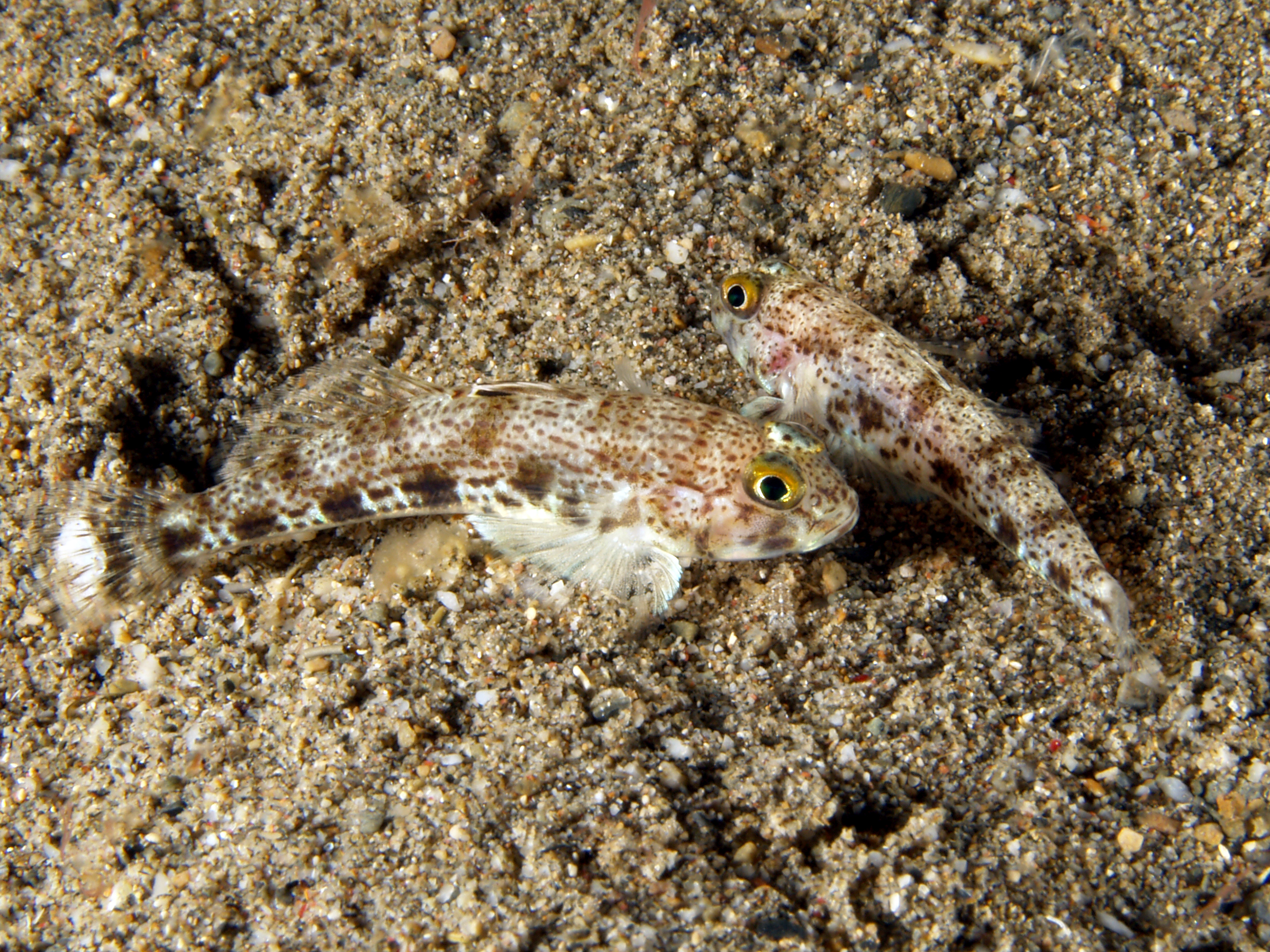 Istigobius nigroocellatus (Black-spotted goby). This species is often seen in pairs.